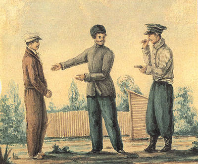 Yakushkin I.D., Bobrischev-Pushkin P.S. and Kyuhelbeker M.K. (in the court of the Chita jail, 1828-1830)